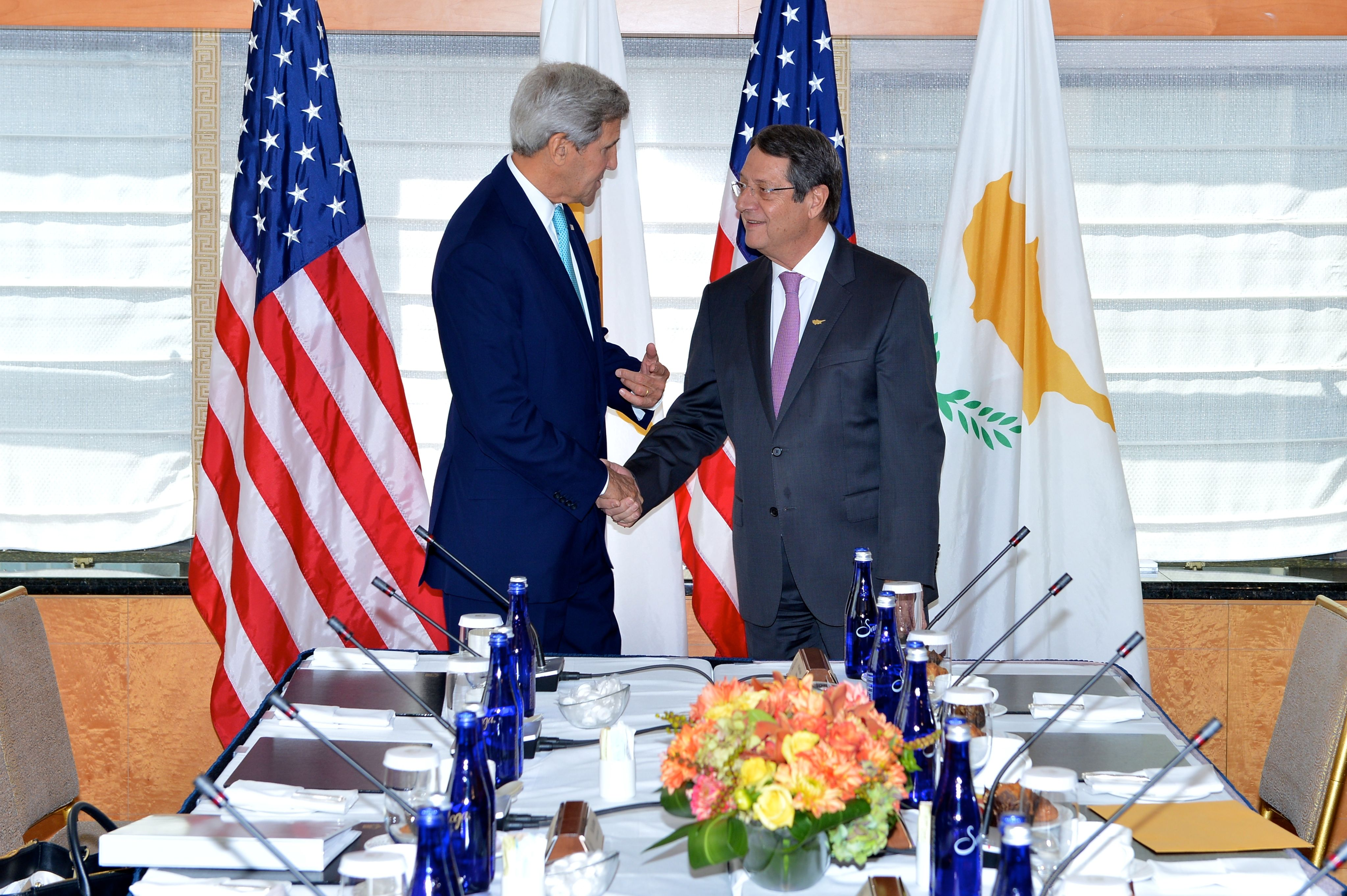 U.S. Secretary of State John Kerry shakes hands with Cypriot President Nicos Anastasiades before their bilateral meeting on the sidelines of the 70th Regular Session of the UN General Assembly in New York, New York, on September 26, 2015. [State Department photo/ Public Domain]